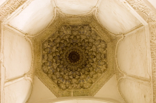 Inside muqarnas of Sidi Belahssen Mosque. Tlemcen, Algeria.